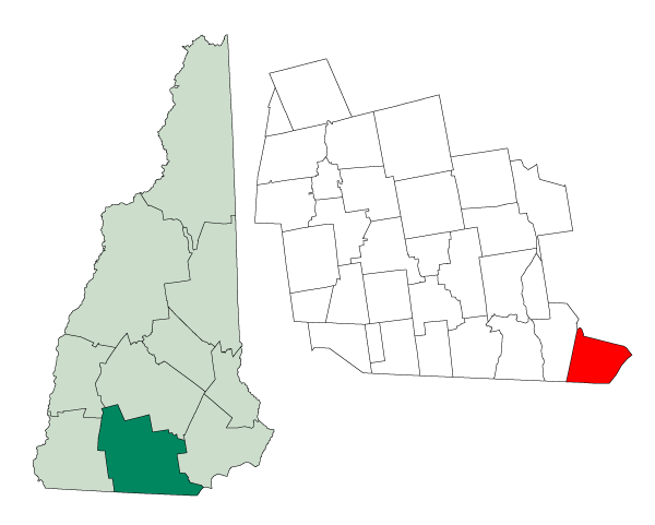 Map of a municipality in Hillsborough County, New Hampshire